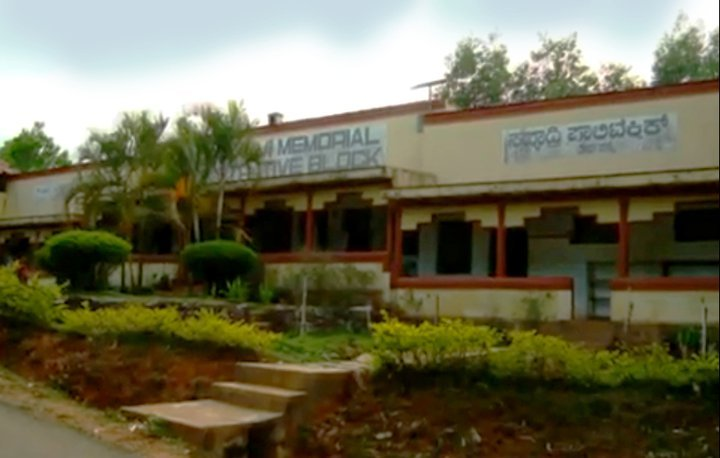 IT IS A PHOTO OF ADMINISTRATION BLOCK OF SAHYADRI POLYTECHNIC-THIRTHAHALLI,IN SHIVAMOGGA DISTRICT,KARNATAKA.